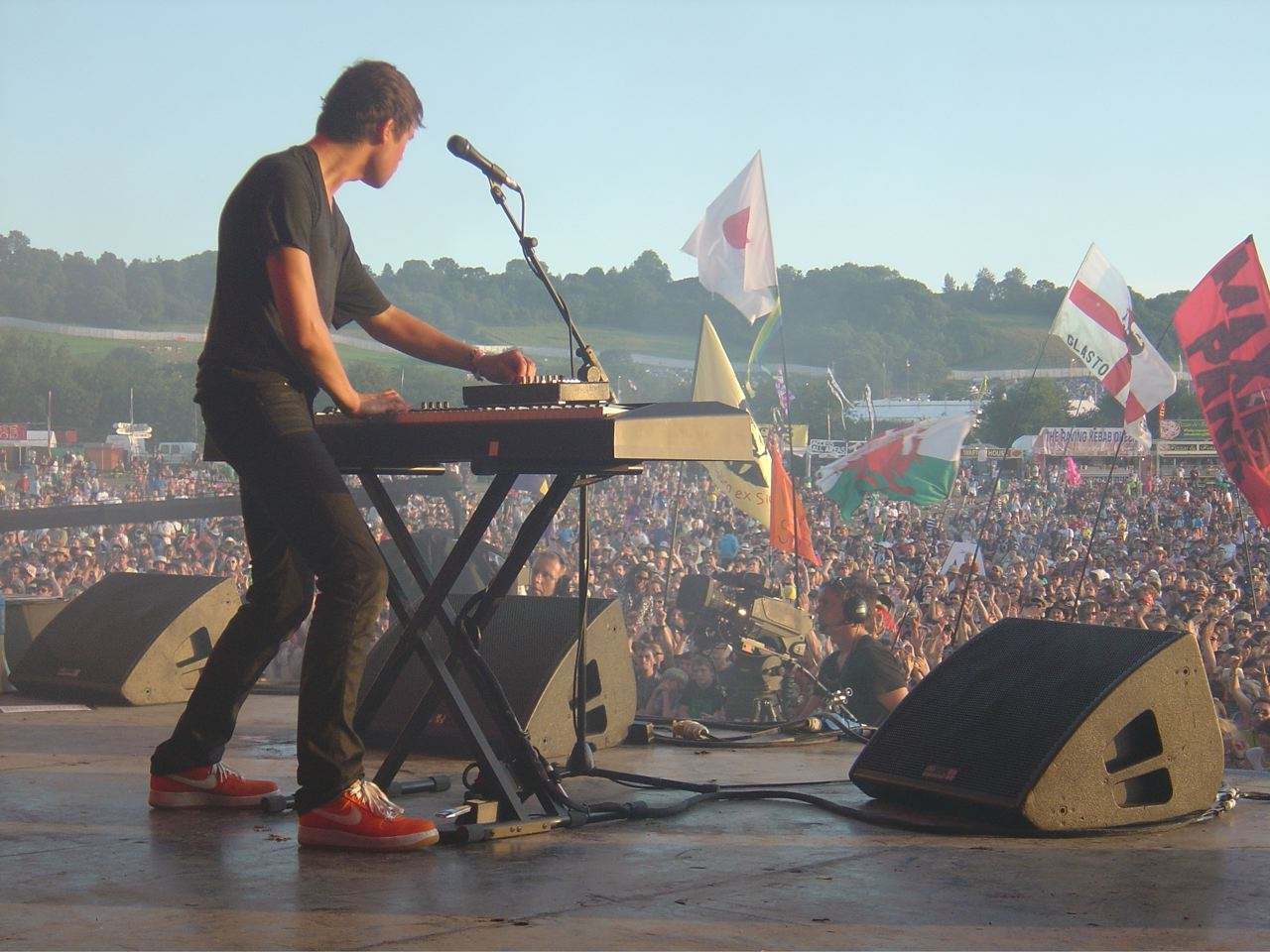 Lukas Wooller performing with Maximo Park on the Other Stage at Glastonbury Festival 2009